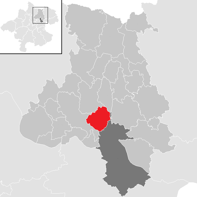 District Urfahr-Umgebung